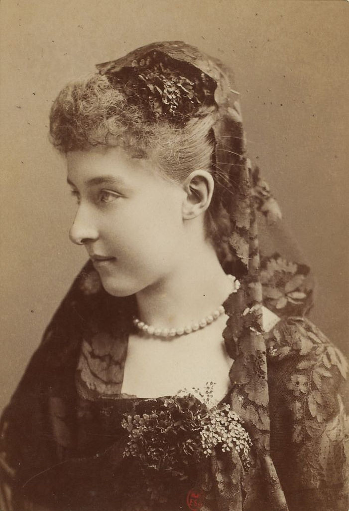 Hélène, Princess d´Orleans (later Duchess of Aosta)